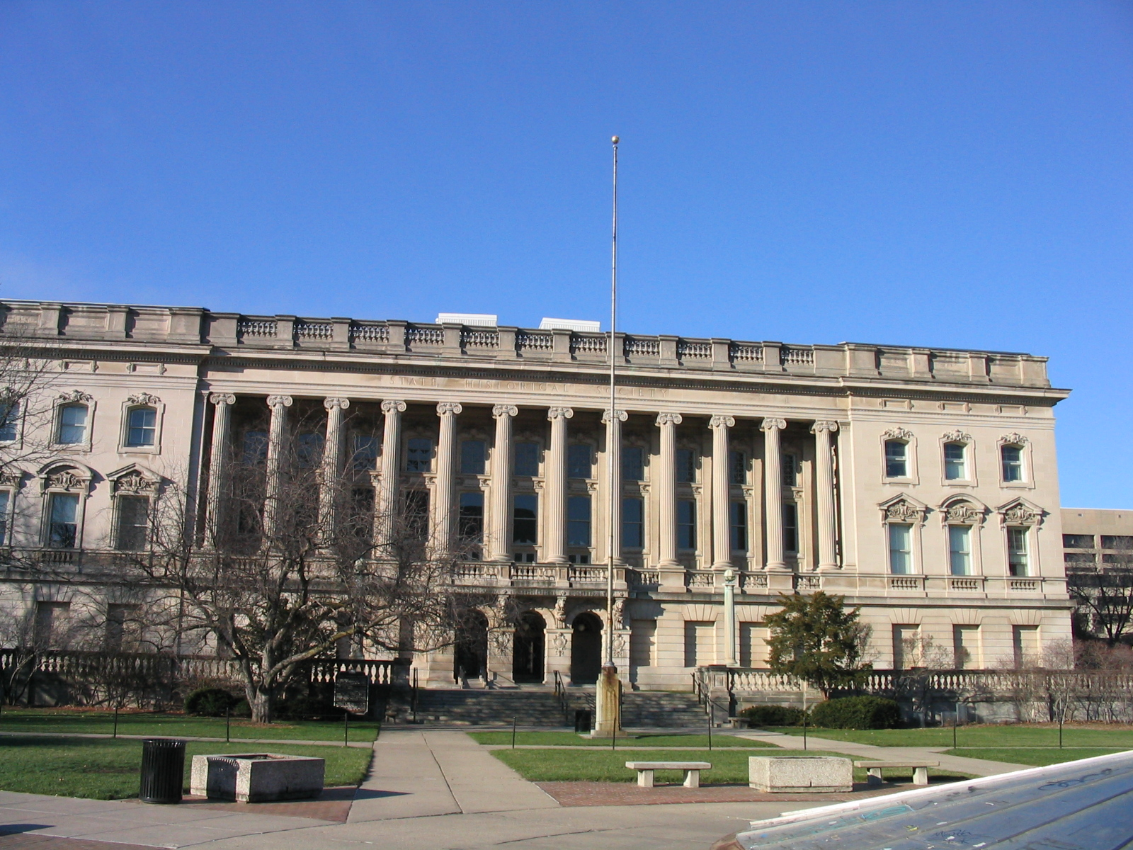 Description:Wisconsin State Historical Society and Library, 816 State Street, Madison, WI 53706-1482 Fotos from Madison, WI taken in Dec 04. *Source: Dori *License: Dual GFDL CC